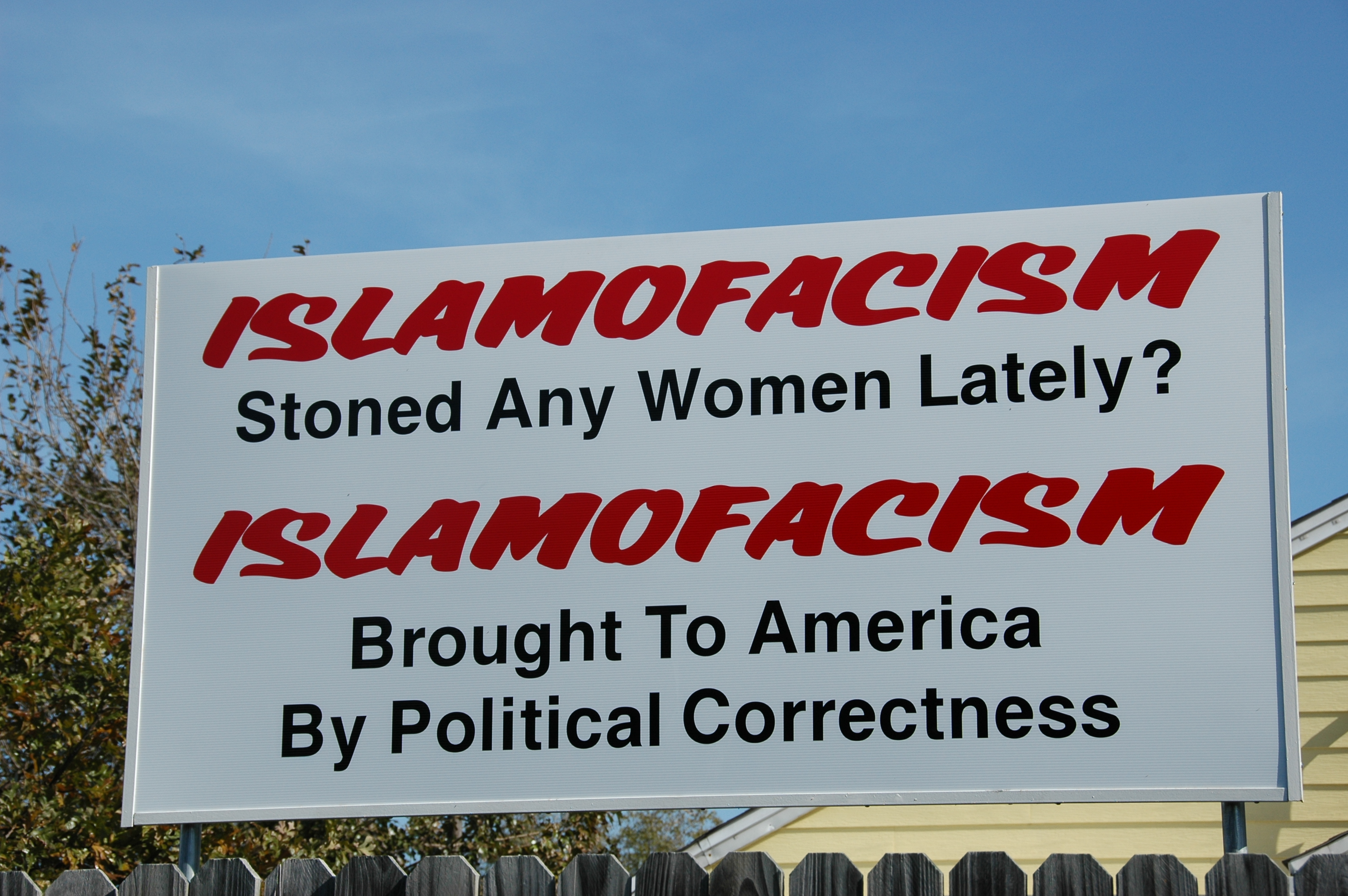 I posted this with a litle apprehension as I didn't want to give this anymore exposure than it already had. This is the second of three "islamofascism" signs that I've seen in Denton. The first one had the word "zion" spray painted over "Islam" within a day or so. This one was placed in someone's backyard at a height of about 8' or so to make it more difficult to take out. It disappeared after about 5 days. Who ever is responsible for this put up a new one on Monday with a new charming message.